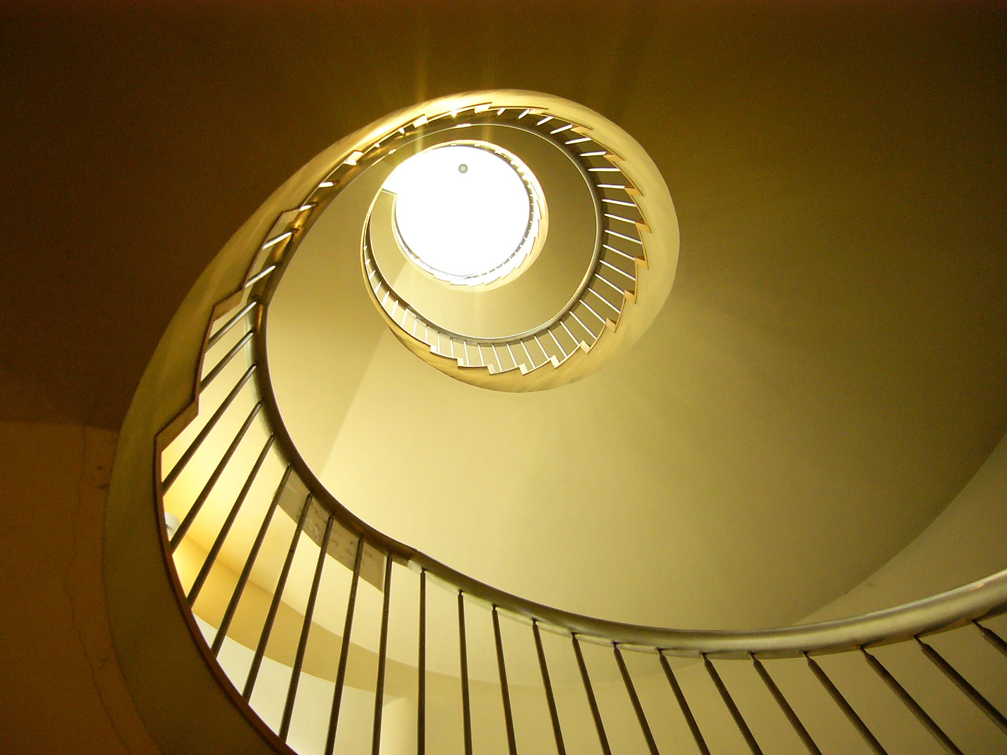 Sera Museum in Kobe, Hyogo, Japan